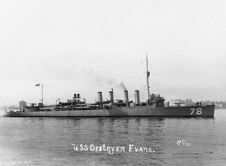 USS Evans (DD-78) At San Diego, California, circa the early 1920s. Transferred to Britain as HMS Mansfield in World War II. Original caption: “Photo # NH 69335 USS Evans at San Diego, California, circa the early 1920s” — removed caption